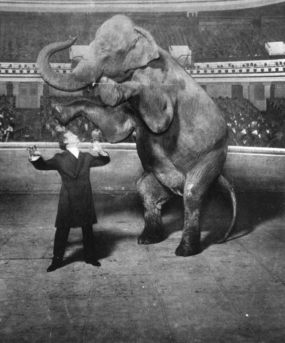 Harry Houdini (1874-1926) vanishing Jennie, the elephant, performing at the Hippodrome, New York.Others might vanish rabbits, but in 1918, on the brightly-lit stage of the Hippodrome in New York City, Houdini made a 10,000-pound elephant disappear. He created a sensation. When Houdini fired a pistol Jennie vanished from view.